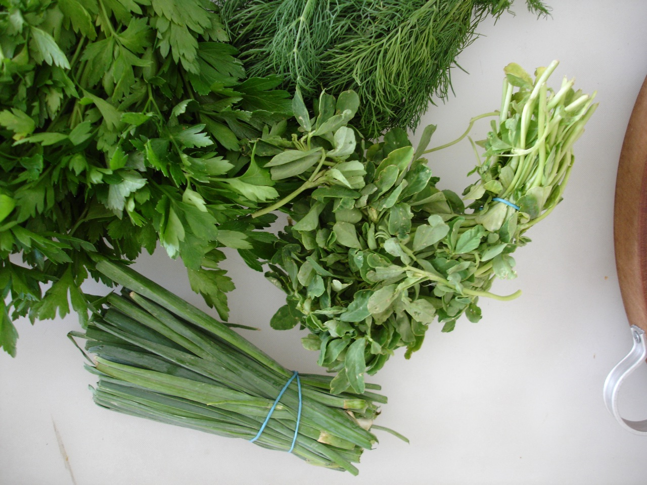 parsley, dill, fenugreek, chives